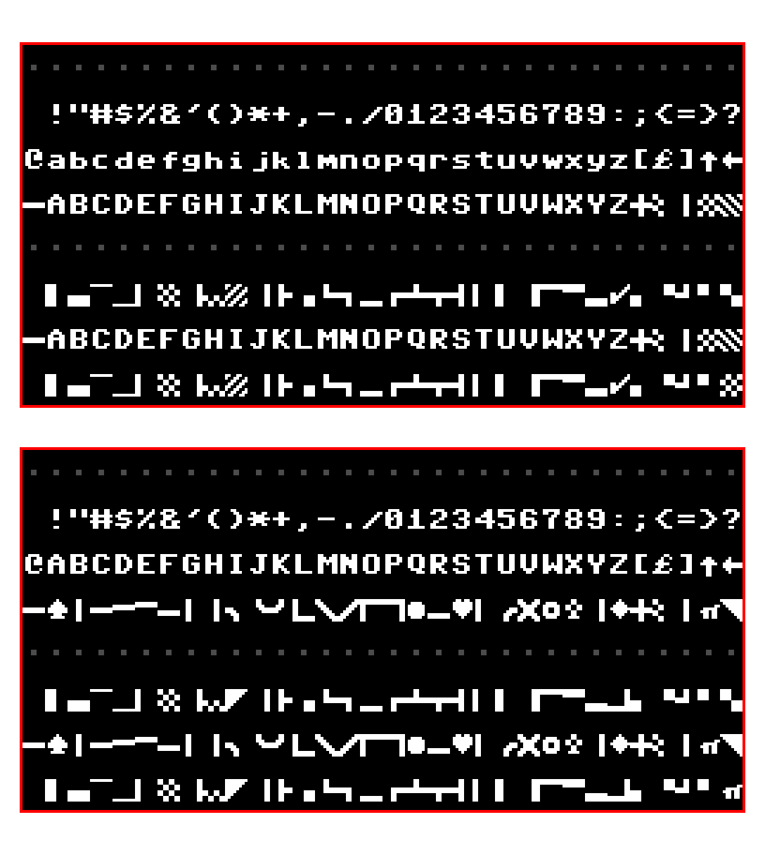 PETSCII shifted and unshifted code page tables.